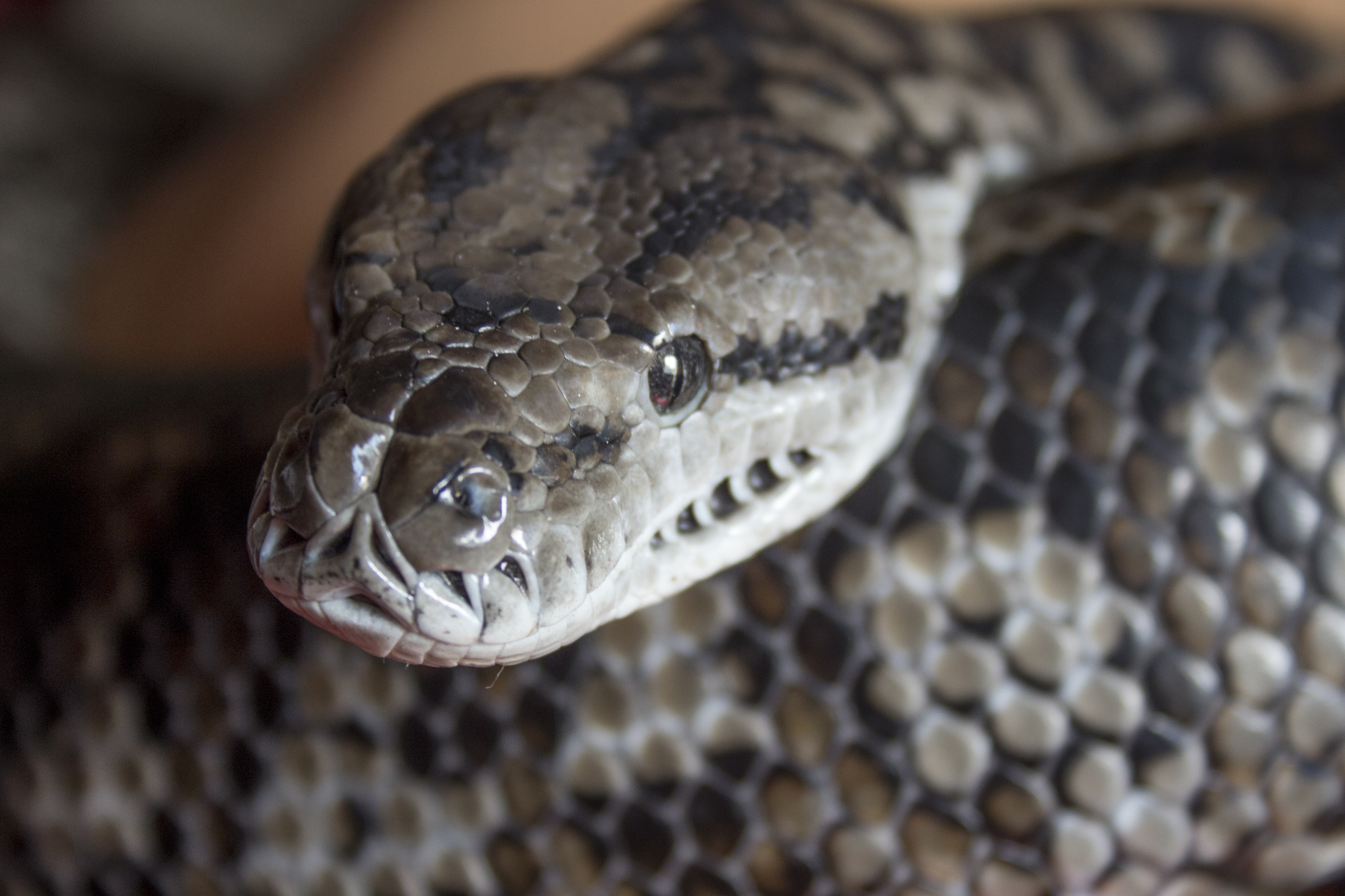 Head of an adult male Murray Darling carpet python, or Morelia spilota metcalfei, showing labial pits at rear of lower jaw and front of upper jaw. At the time the photo was taken, he was 5 years old, 1.8m long and weighed 4.4kg.